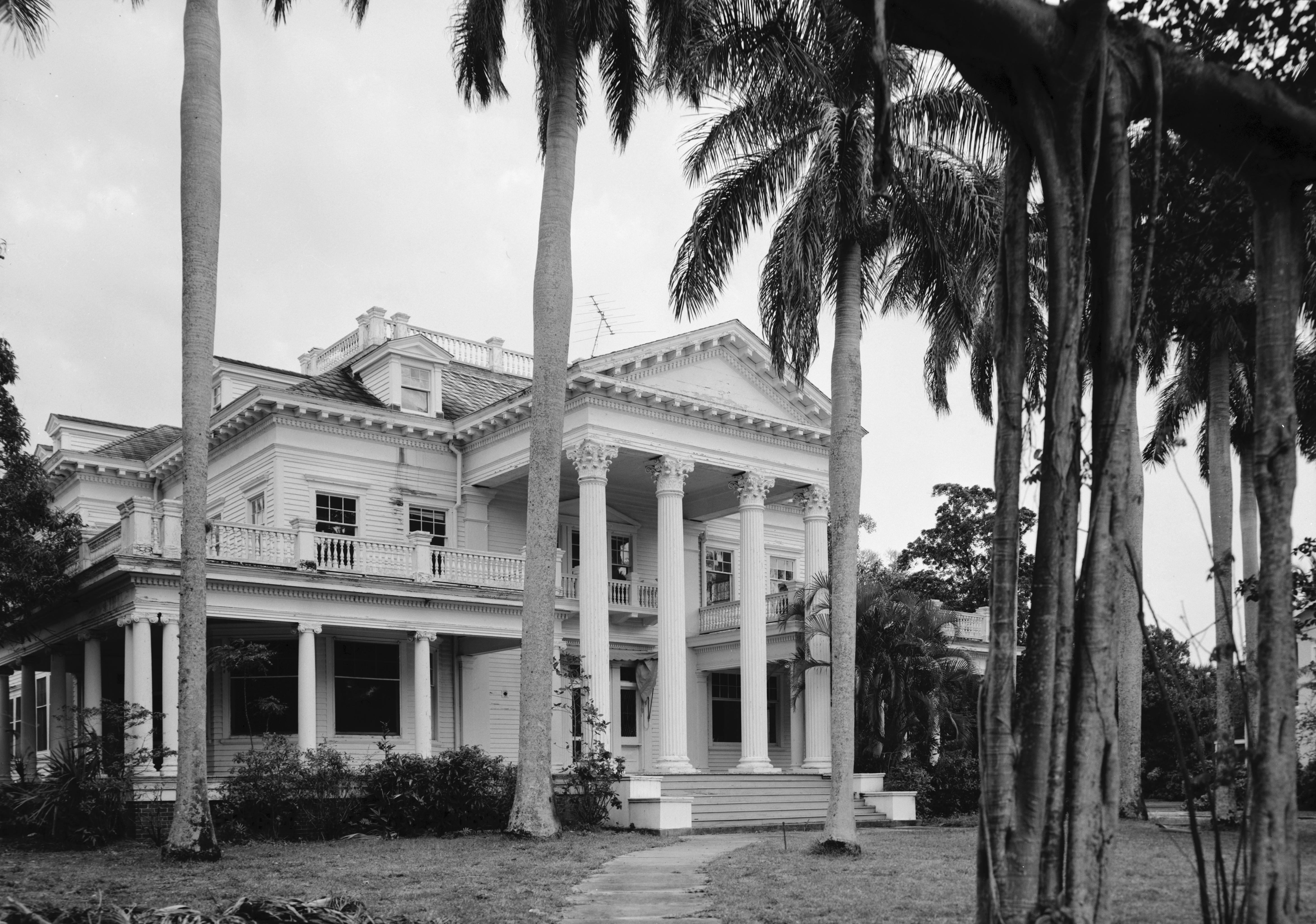 Front of the Brelsford House — formerly located at 1 Lake Trail in Palm Beach, Florida. The Neoclassical style house was built in 1903, and it is listed on the National Register of Historic Places, even though it was demolished in 1975. Image courtesy of federal HABS—Historic American Buildings Survey in Florida project.